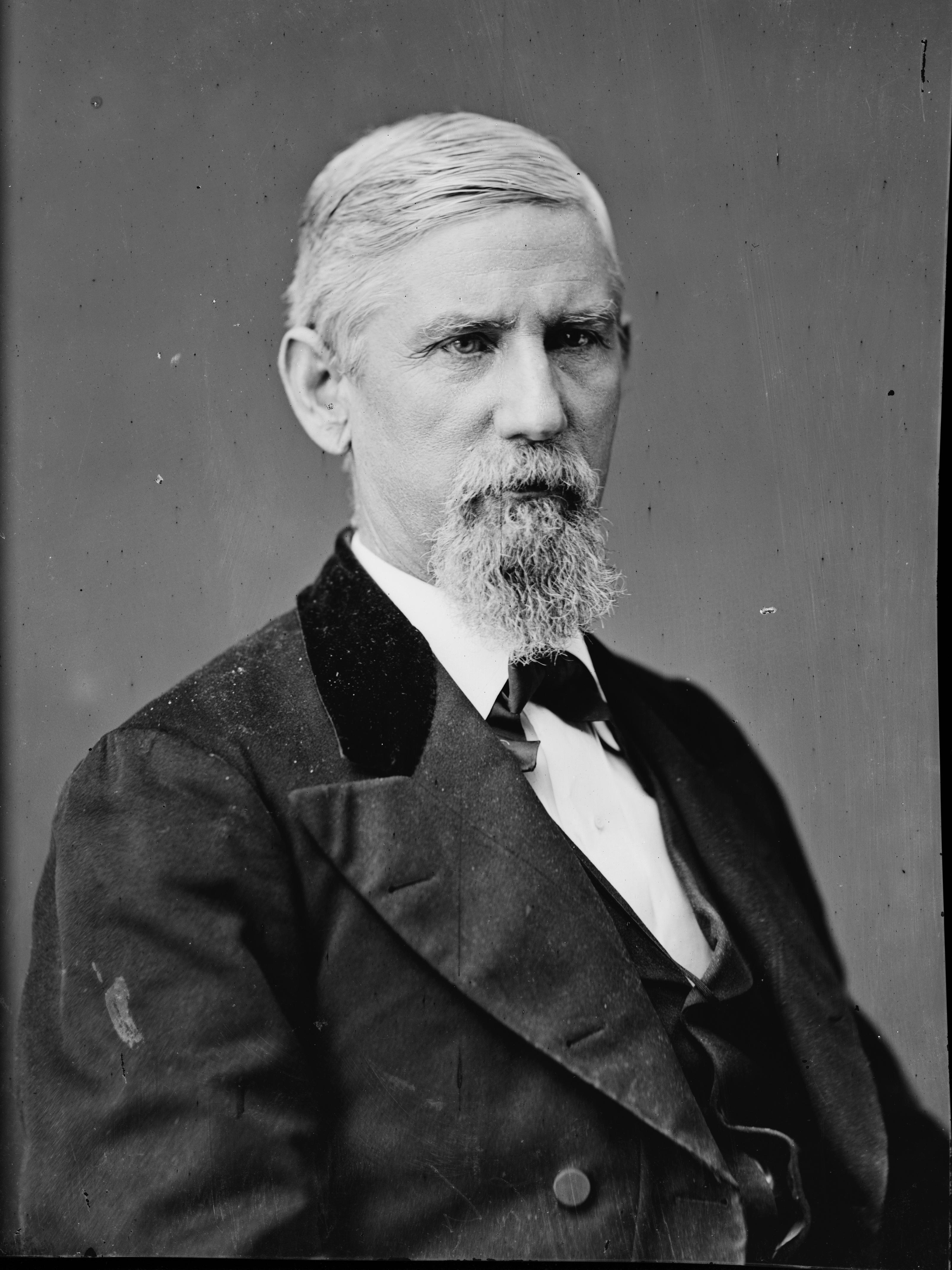 Washington C. Whitthorne. Library of Congress description: "Whitthorne, Hon. Wash. Curran of Tenn.".